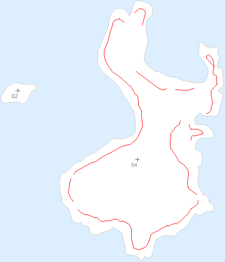 map of Scott Island, Antarctica north = bottom